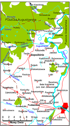 Suwałki Region Sapotskin